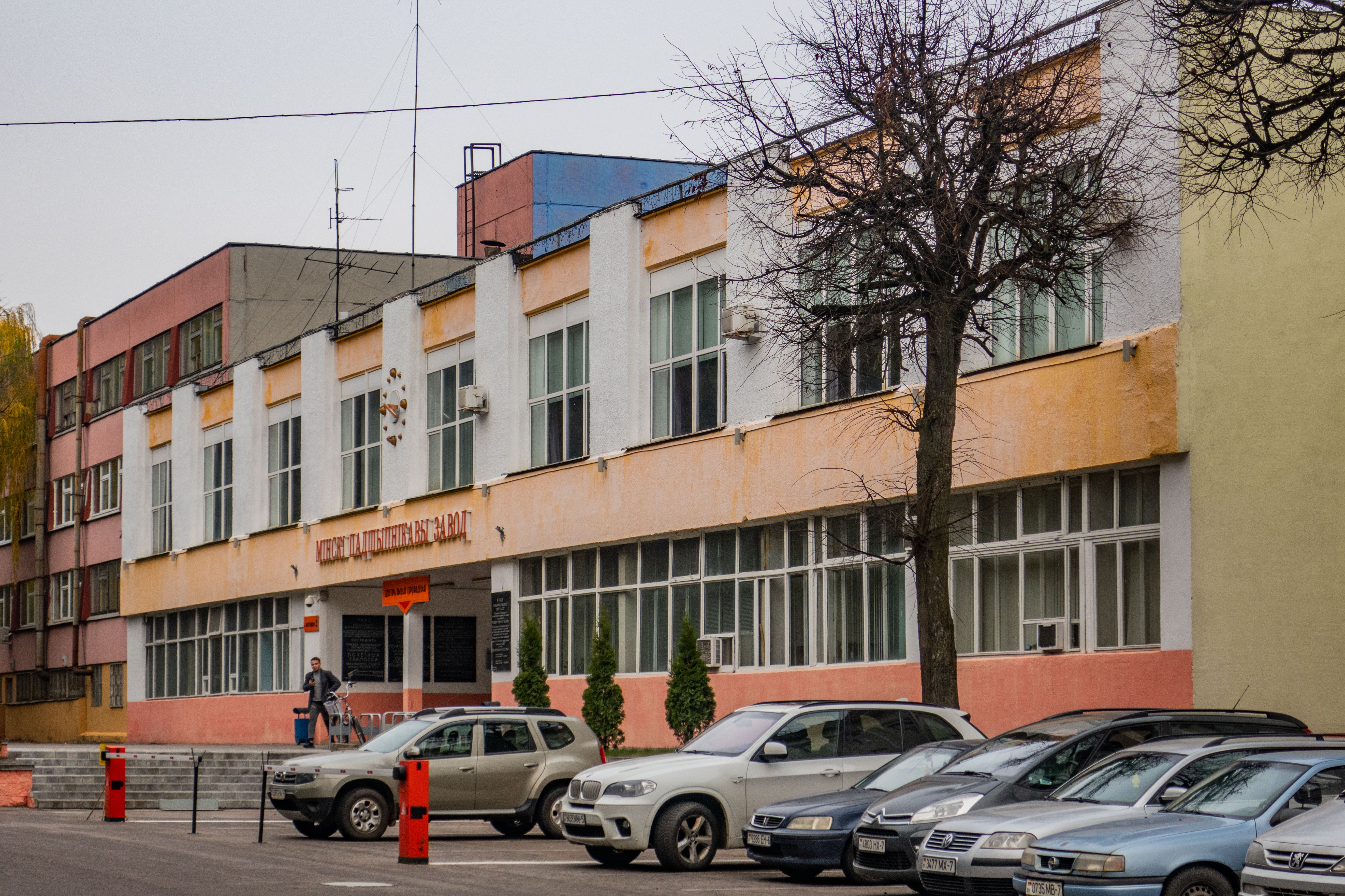 Minsk bearing factory (GPZ-11), Belarus